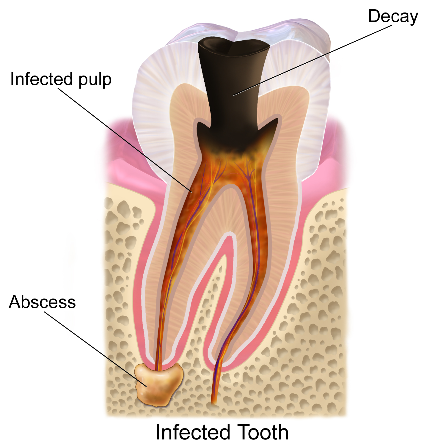 Tooth Decay. See a full animation of this medical topic.